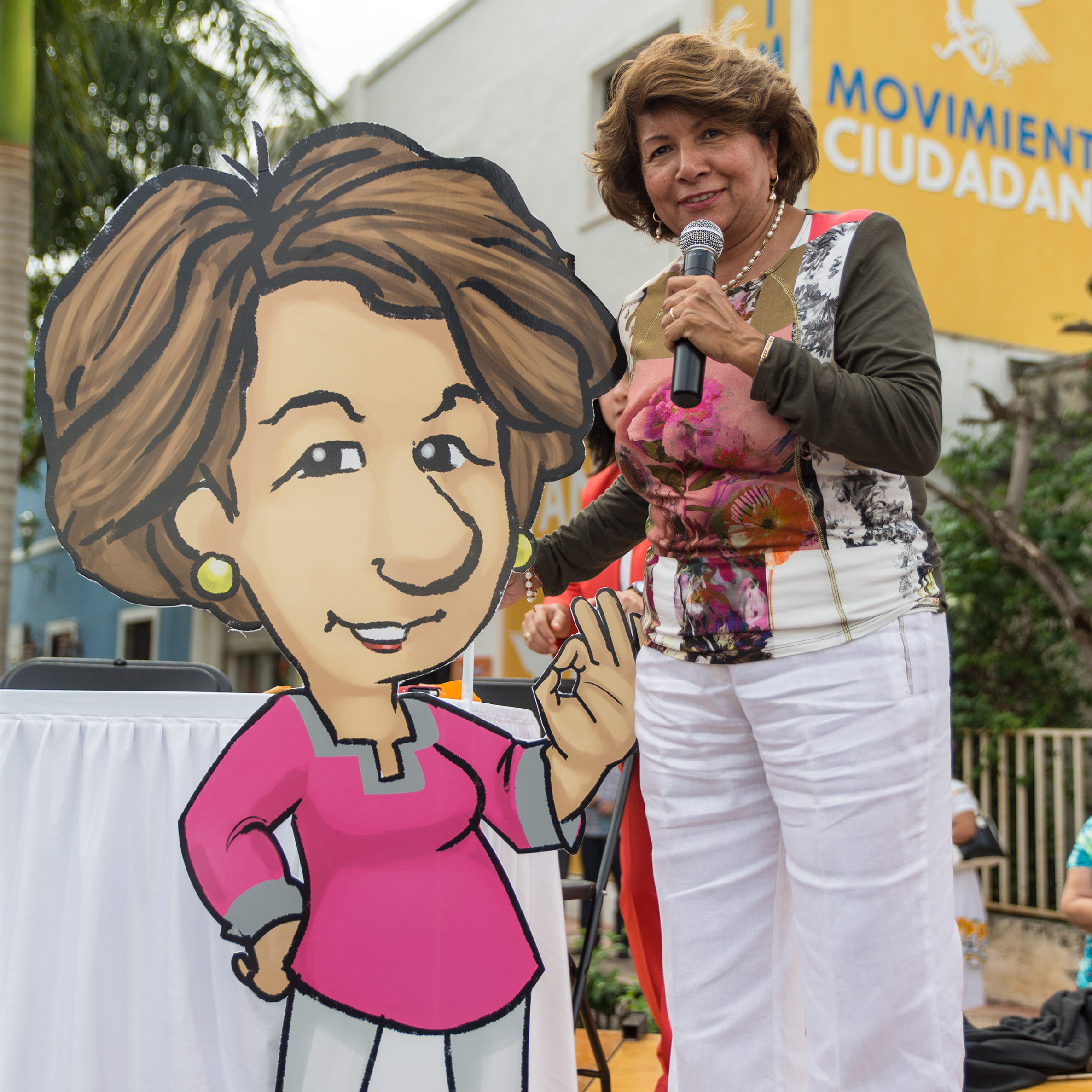 Ana Rosa Payán Cervera.